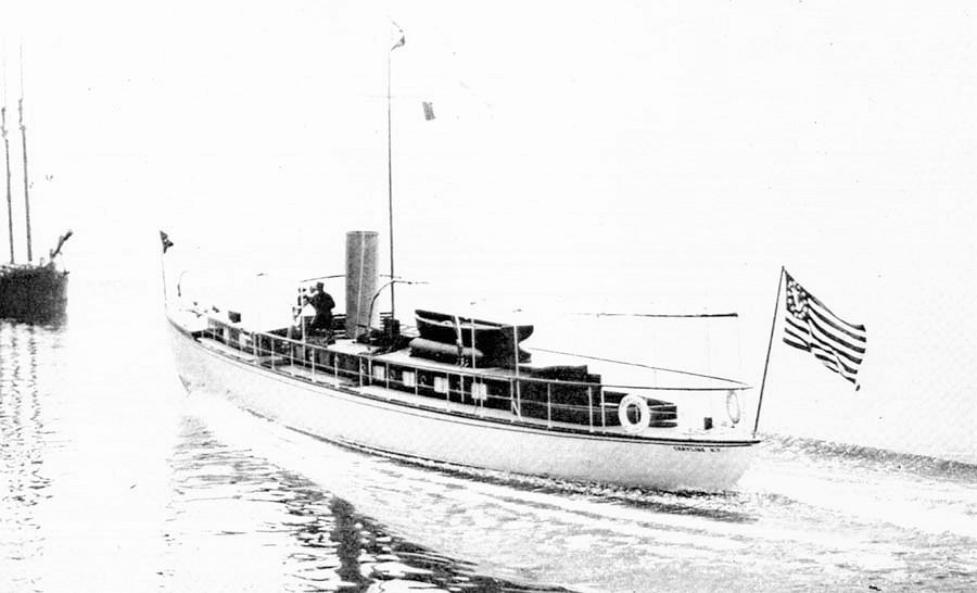 The yacht Grayling, prior to her United States Navy service as patrol vessel